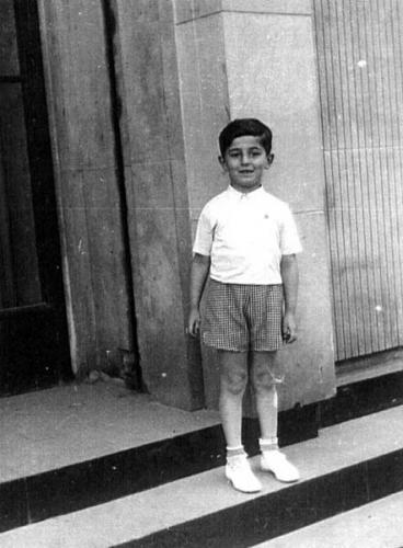 Henio Zytomirski at the entrance to P.K.O bank in Lublin